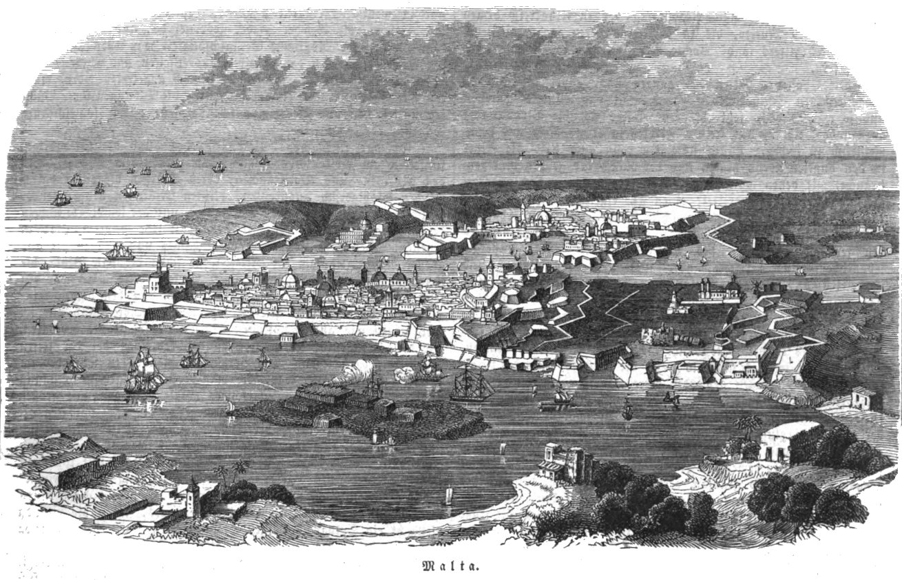 caption: "Malta."